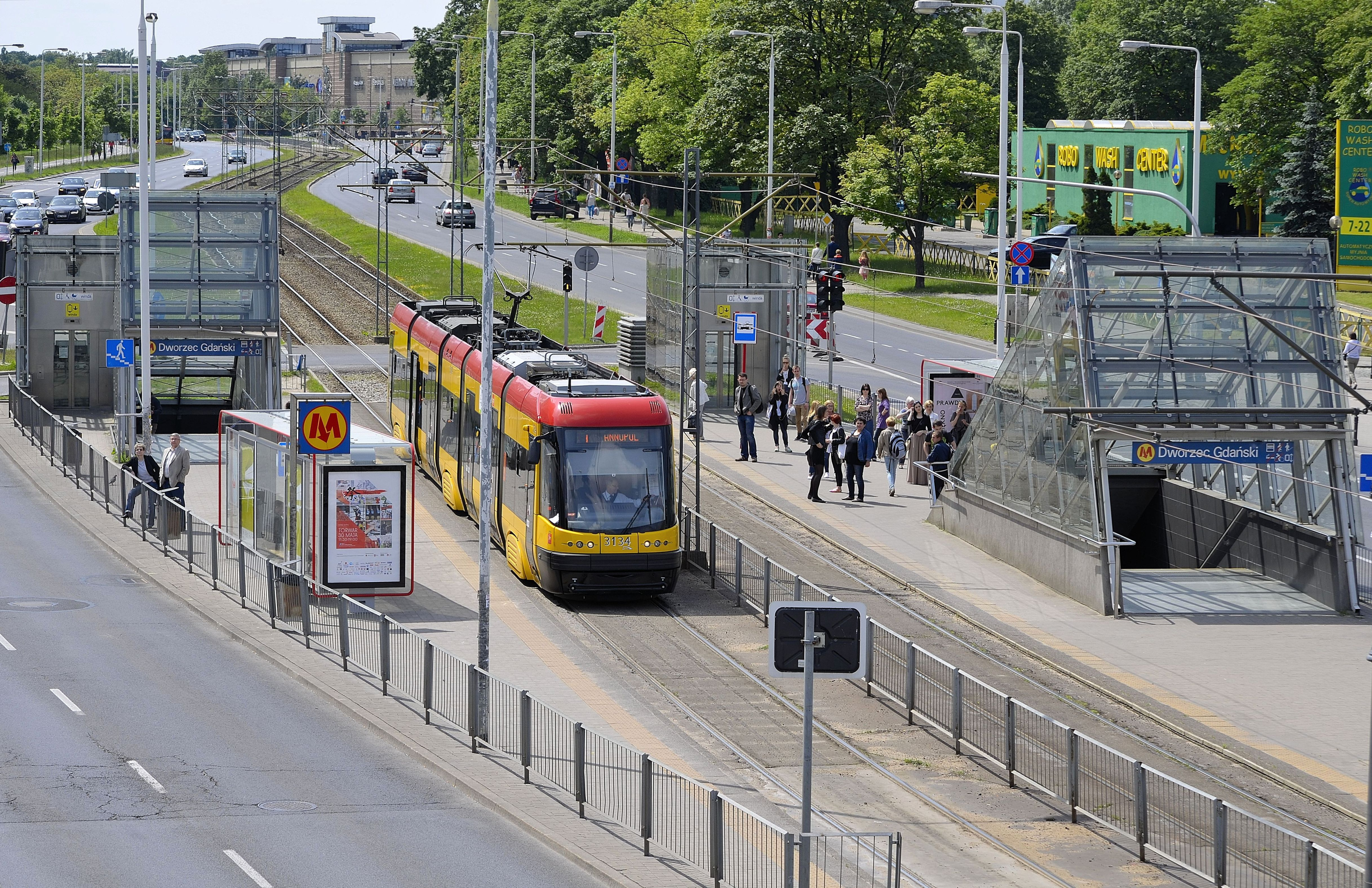 Zygmunt Słomiński Street in Warsaw